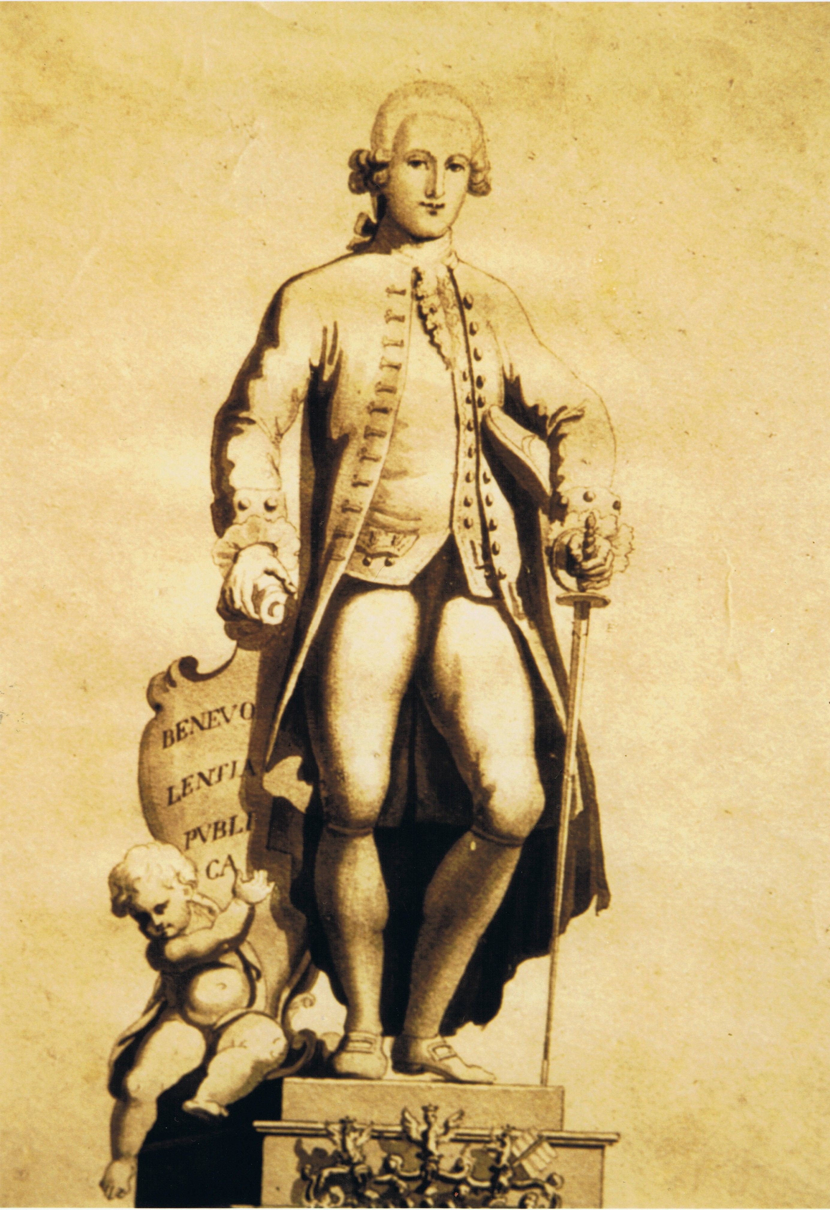 scan of a photo, by R, de Salis, October 2009, of a C19th photo of a C18th print (or of the original drawing) of the statue of Peter (3rd) Count de Salis-Soglio. It was put up in Chiavenna in 1782 or 1783. It was dismembred by a mob in 1787.Rodolph (talk) 23:38, 24 October 2009 (UTC)